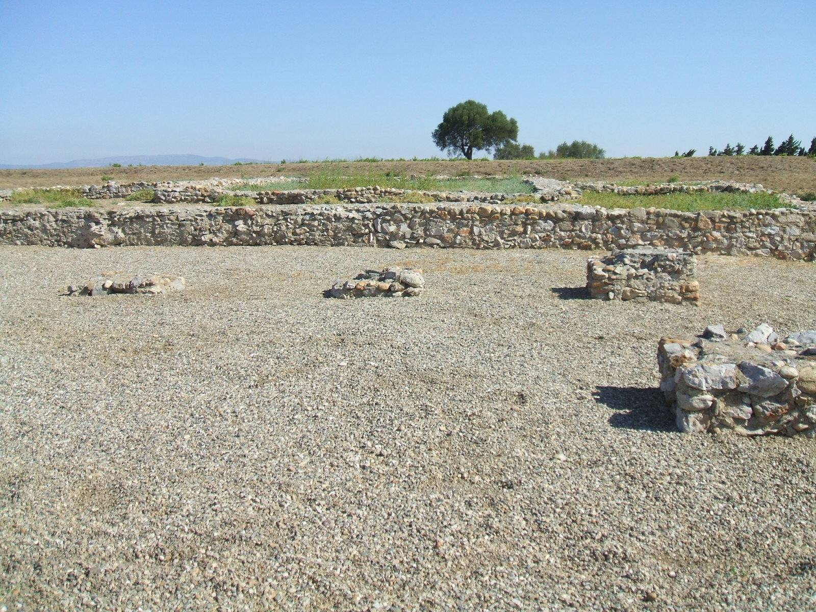 Ruscino archaeological site : the Roman forum, remains of the curia on the northern side (Ist century AD)